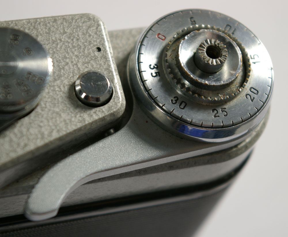 Kristall camera (USSR, 1961). Winding lever, frame counter, release button, and rewind button